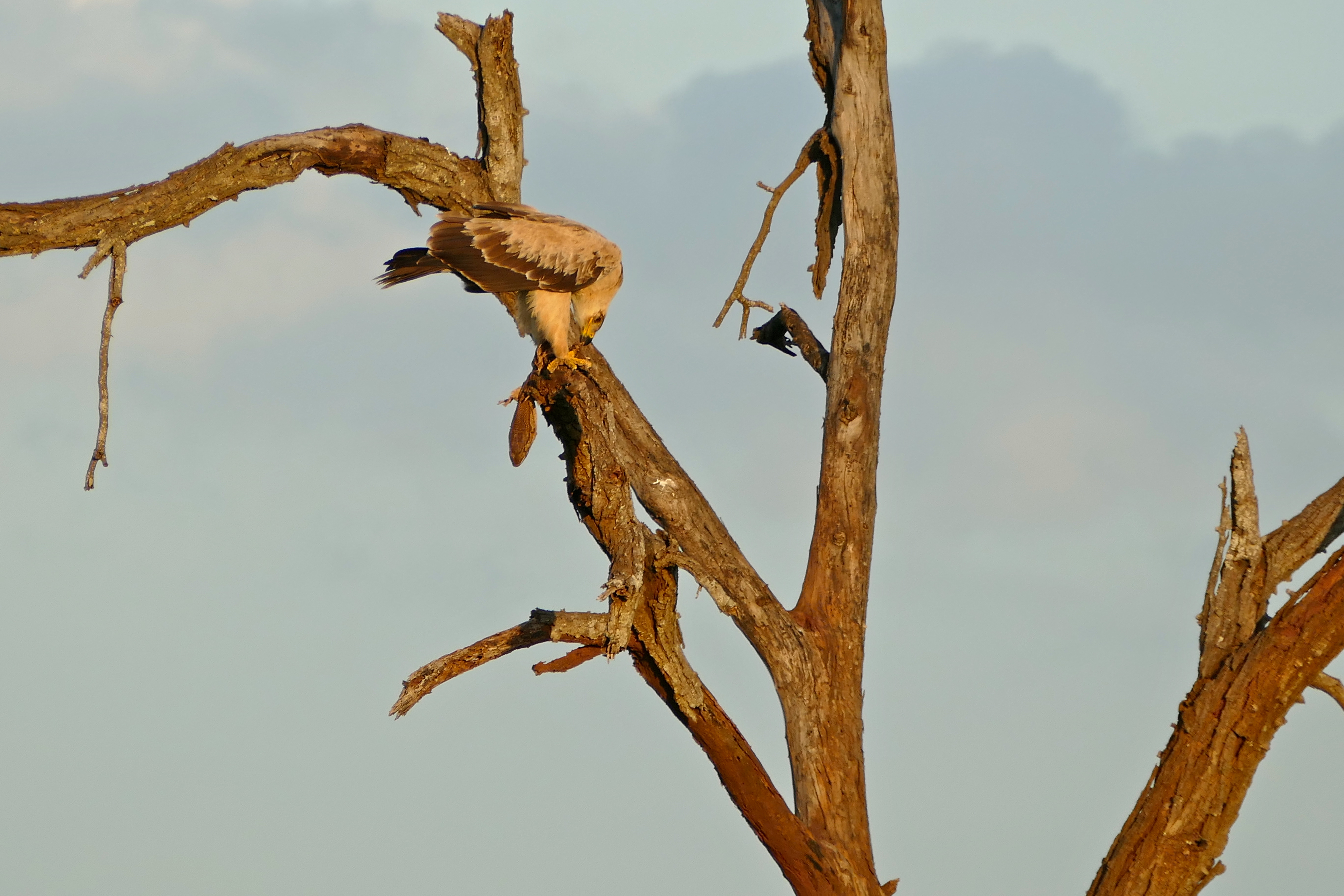 H4-2 Road North of Crocodile Bridge, Kruger NP, SOUTH AFRICA